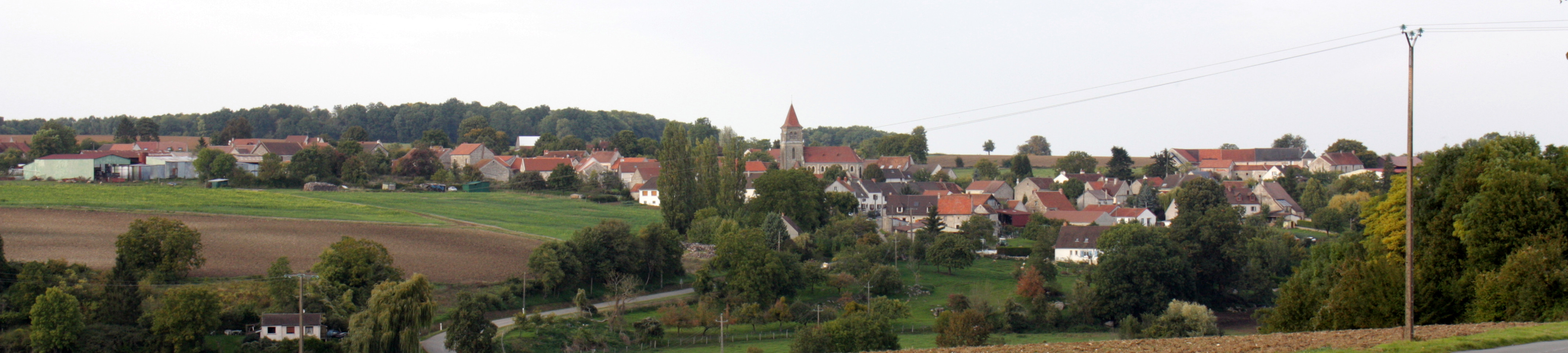 Panoramic view of Lucy-le-Bocage, Aisne, France.